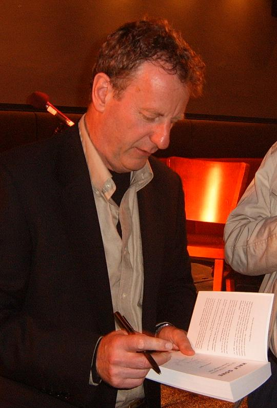 Jeremy Leggett: Picture taken at a public discussion and book-signing during Science Week, Canberra, Australian Capital Territory, Australian Capital Territory. Leggett is signing a copy of Australian Capital Territory. I took this picture. - Peter Ellis - Talk 12:17, 18 August 2007 (UTC)